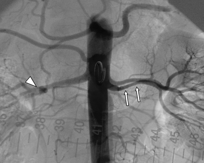 Renal artery angiography in a 35-year-old woman with unexplained hypertension showing the typical "string-of-beads" sign (arrows) characteristic for FMD involving the lower left renal artery (accessory artery). The arrowhead indicates a small saccular aneurysm at the distal portion of right renal artery.